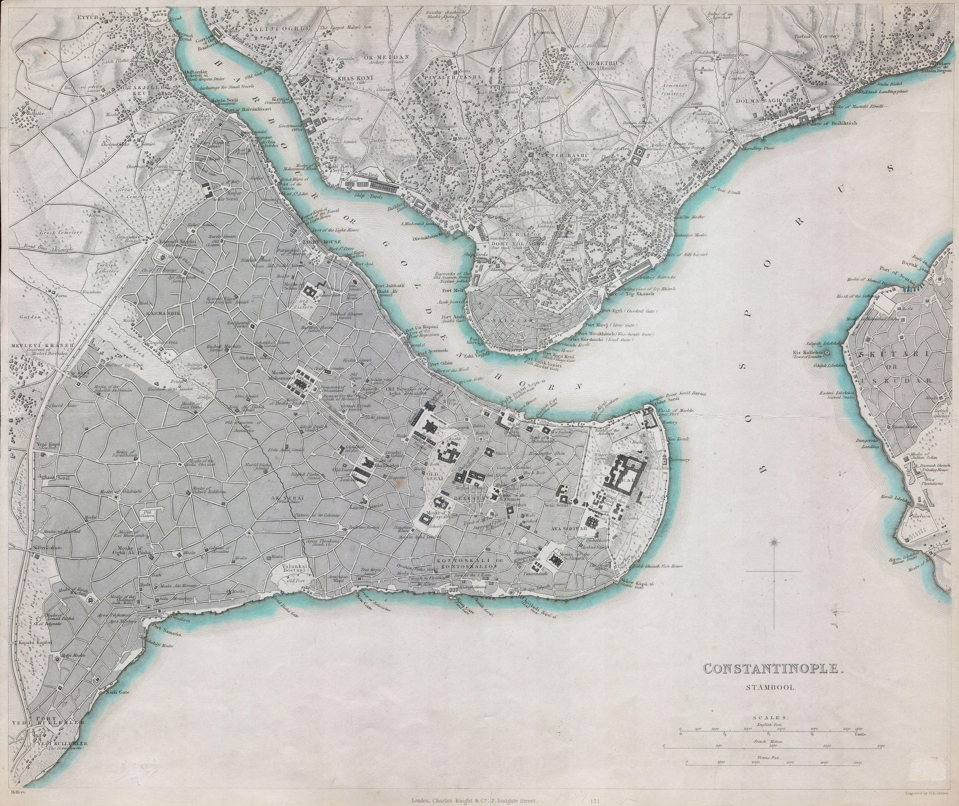 This map is a steel plate engraving, dating to 1841 by the Society for the Diffusion of Useful Knowledge, S.D.U.K. It represents the Constantinople (Stambool), today known as Istanbul and once known as Byzantium. Beautifully exhibits the Golden Horn with neighbouring Ghalatah, and Constantinople’s Asian part ‘Üskudar’. Depicts the city in considerable detail down to individual streets, markets, mosques, buildings and palaces. Published for the Society for the Diffusion of Useful Knowledge Atlas by Charles Knight of 22 Ludgate Street, London, 1841.